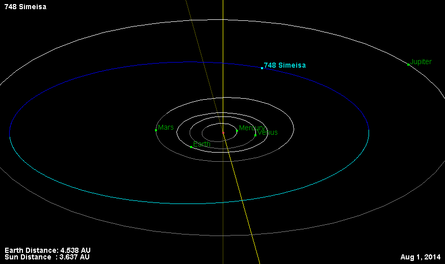 748 Simeisa orbit and his position on 01 Aug 2014 (NASA Orbit Viewer applet)